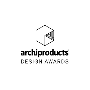 Archiproducts Design Award